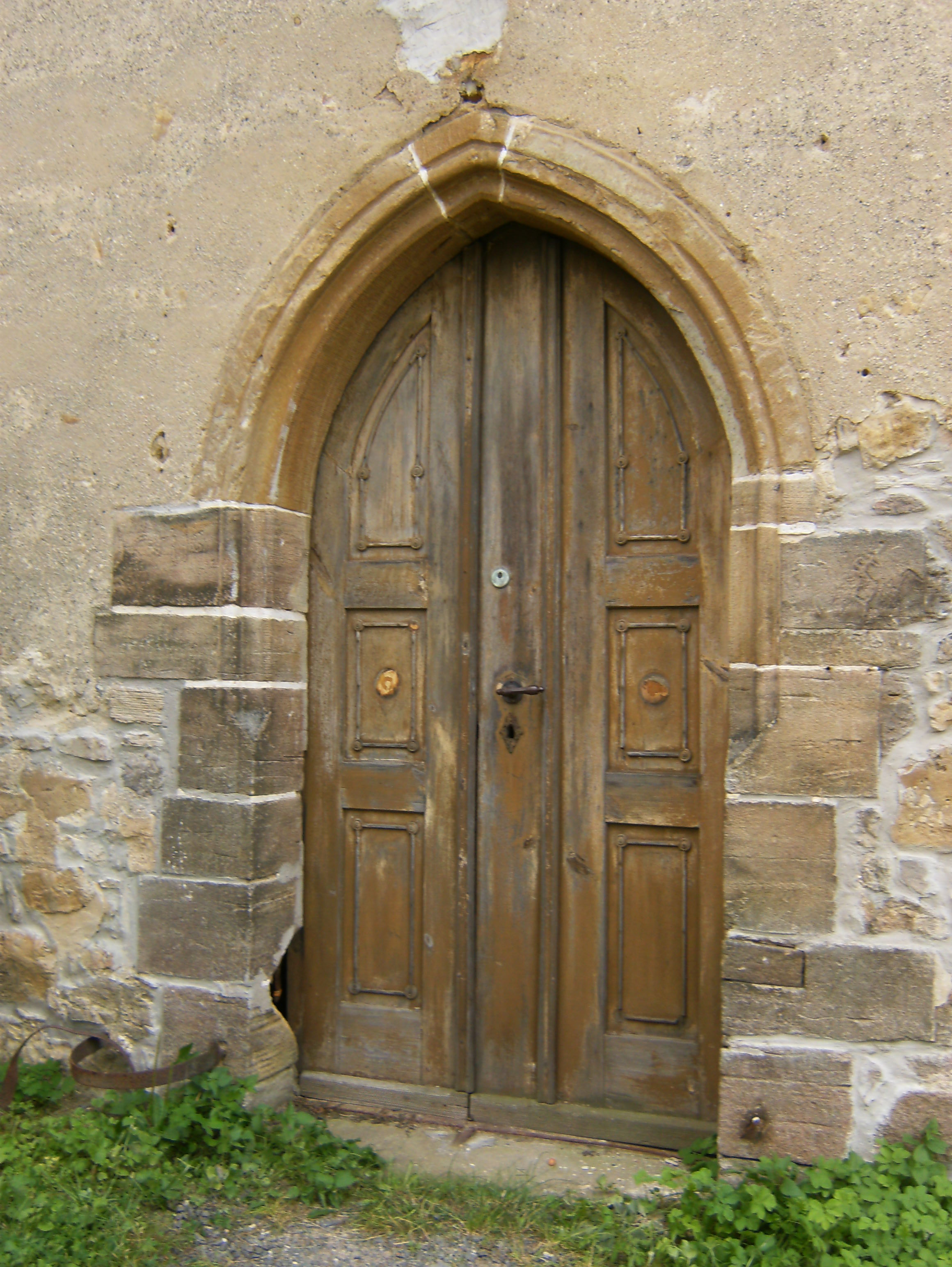 Gera Dorna, gothic church portal.